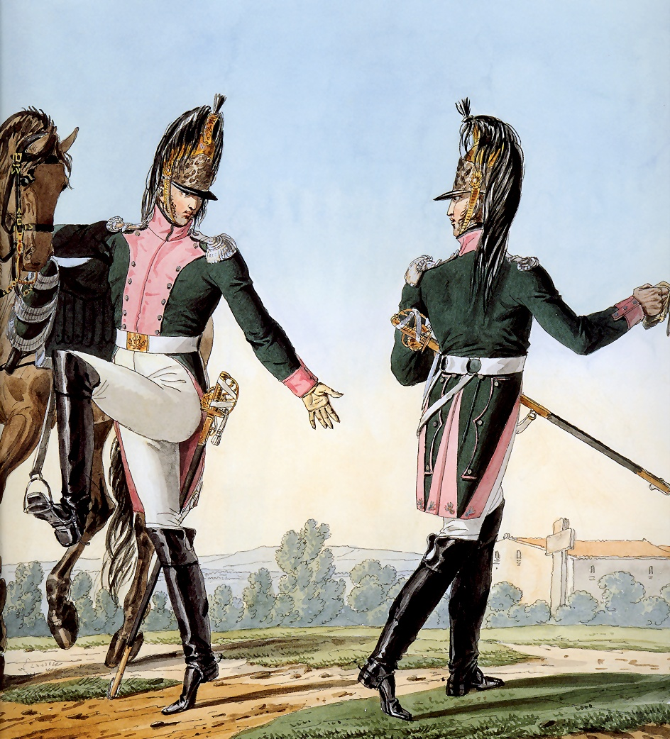 Part of a series chronicling the uniforms of Napoleon's Grande Armée.